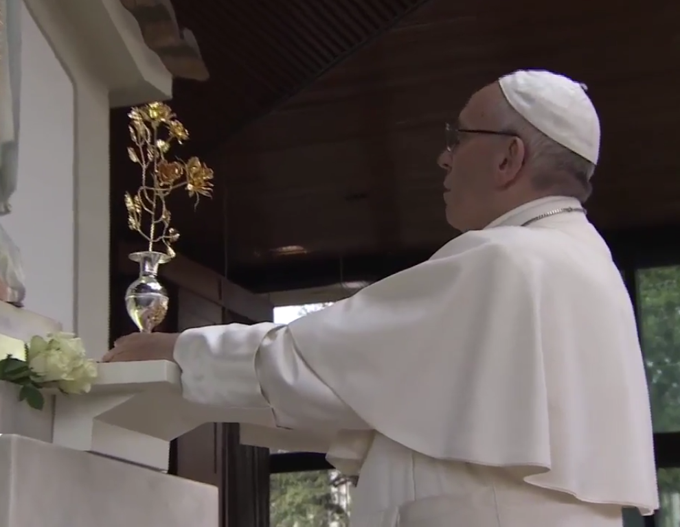 Pope Francis awards a Golden Rose to the Sanctuary of Our Lady of Fatima, in Portugal, on 12 May 2017.